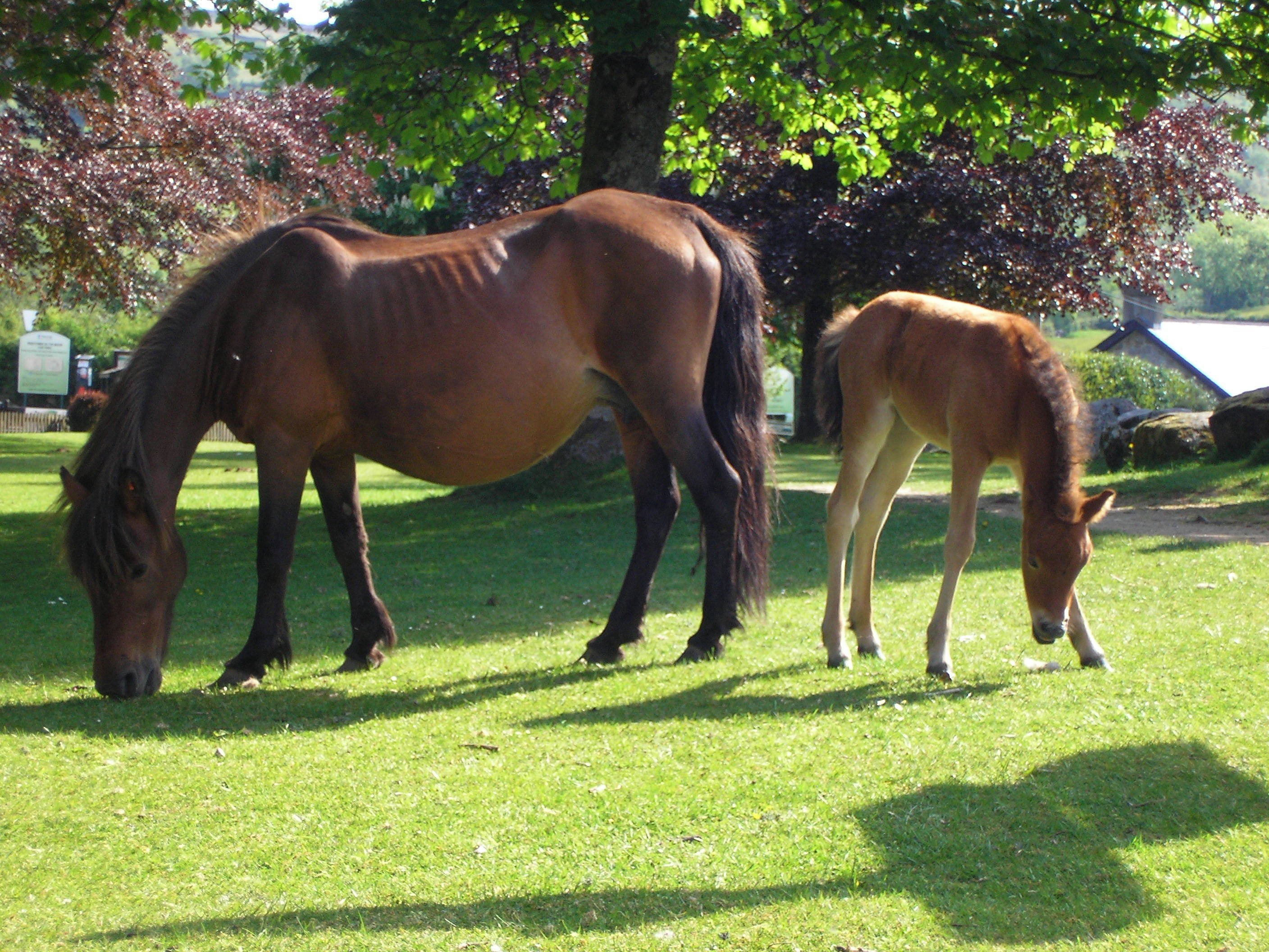 A bus ride to Widecombe and a stroll around the village on June 8th 2013. Camera: Olympus FE-120 6.0 Digital.